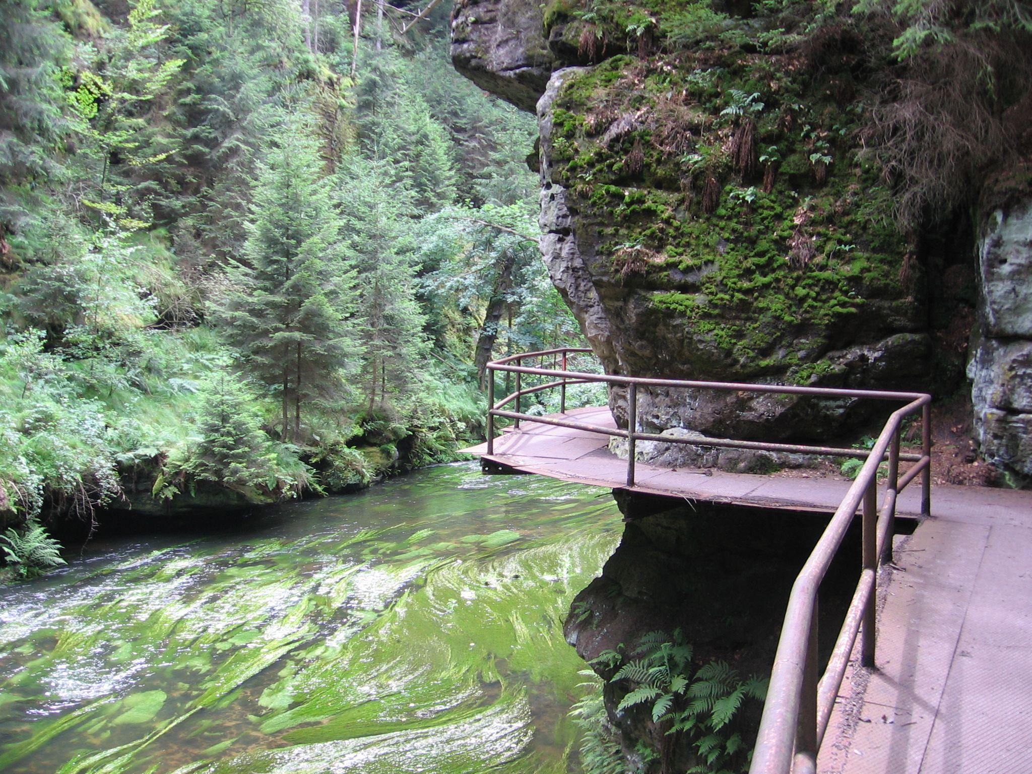 "Wild Canyon" of River Kamenice in National Park České Švýcarsko (Ústí nad Labem Region, Czech Republic)